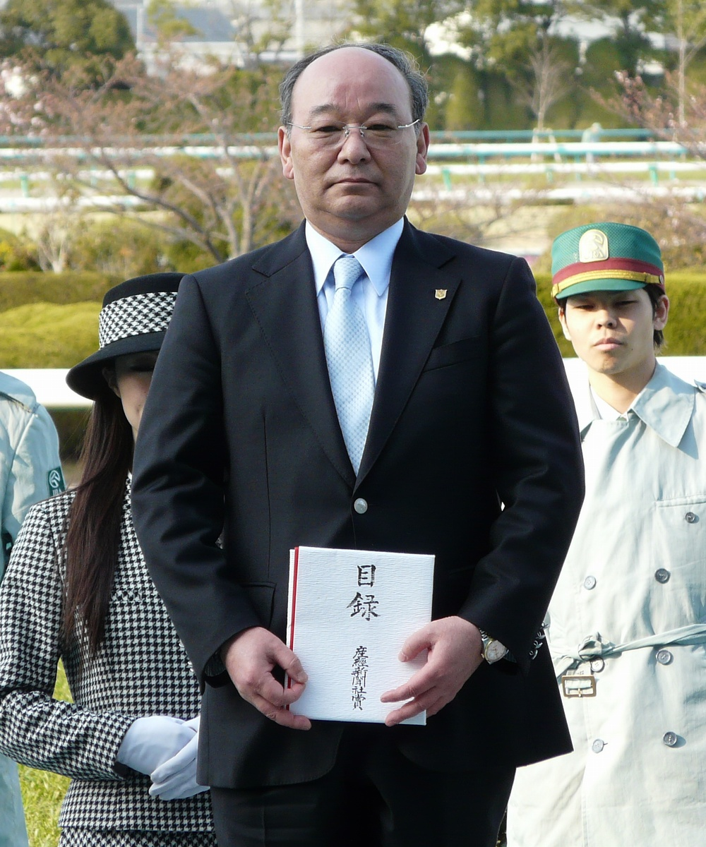 Mitsugu-Kon20110403